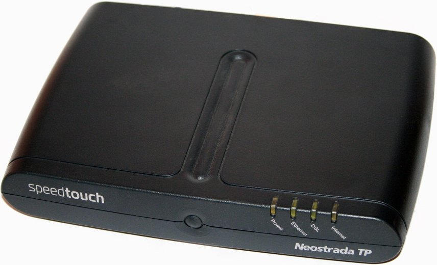 Router Neostrady TP Thomson SpeedTouch 546.